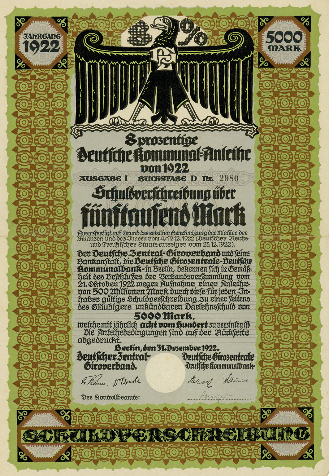 Bond of the german Zentral-Giroverband, issued 31. December 1922